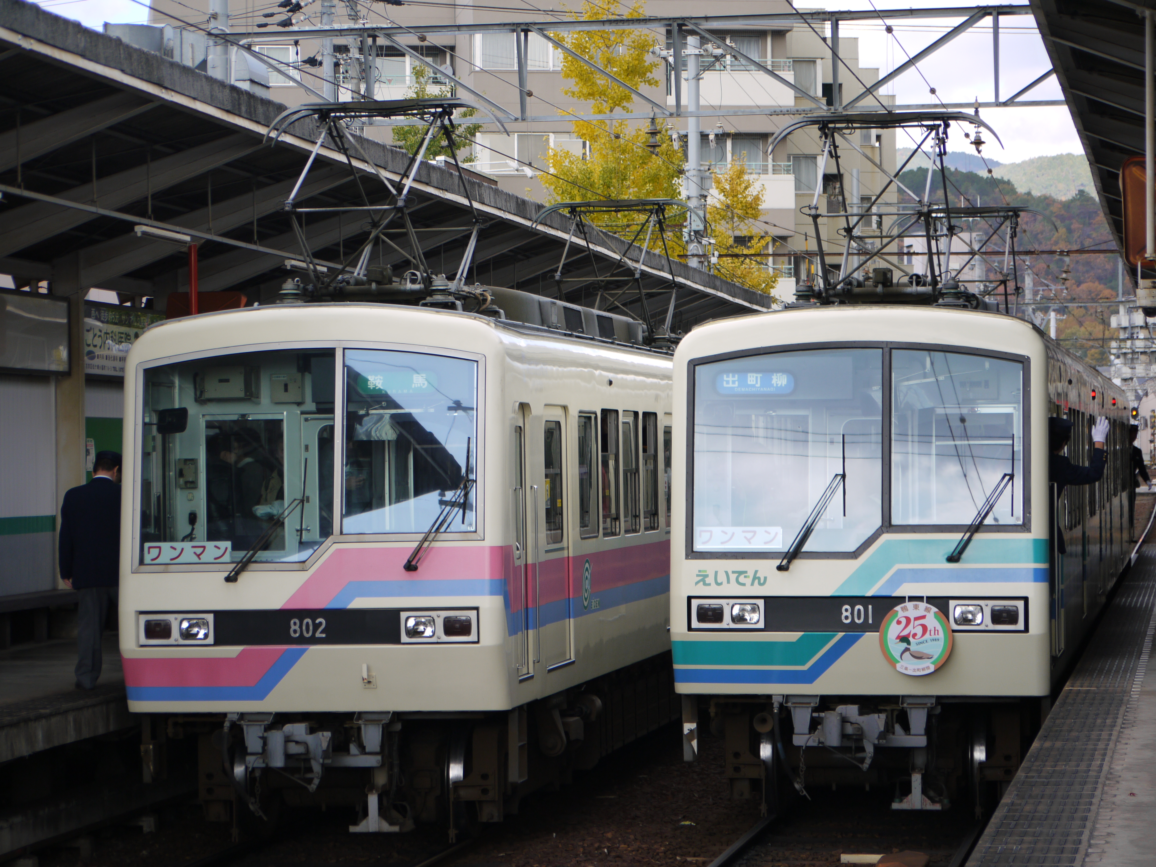 Eizan Electric Railway 801 and 802 stop at Shugakuin station